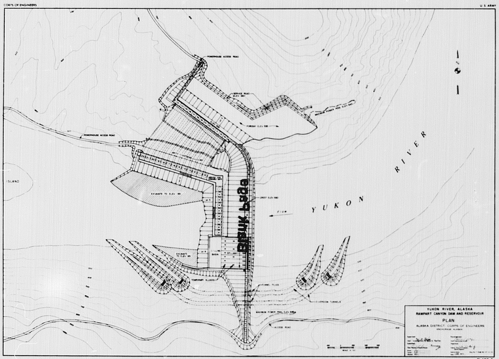 An architectural drawing of the proposed Rampart Dam on the Yukon River in Alaska. Taken from the official U.S. Army Corps of Engineers report on the project.